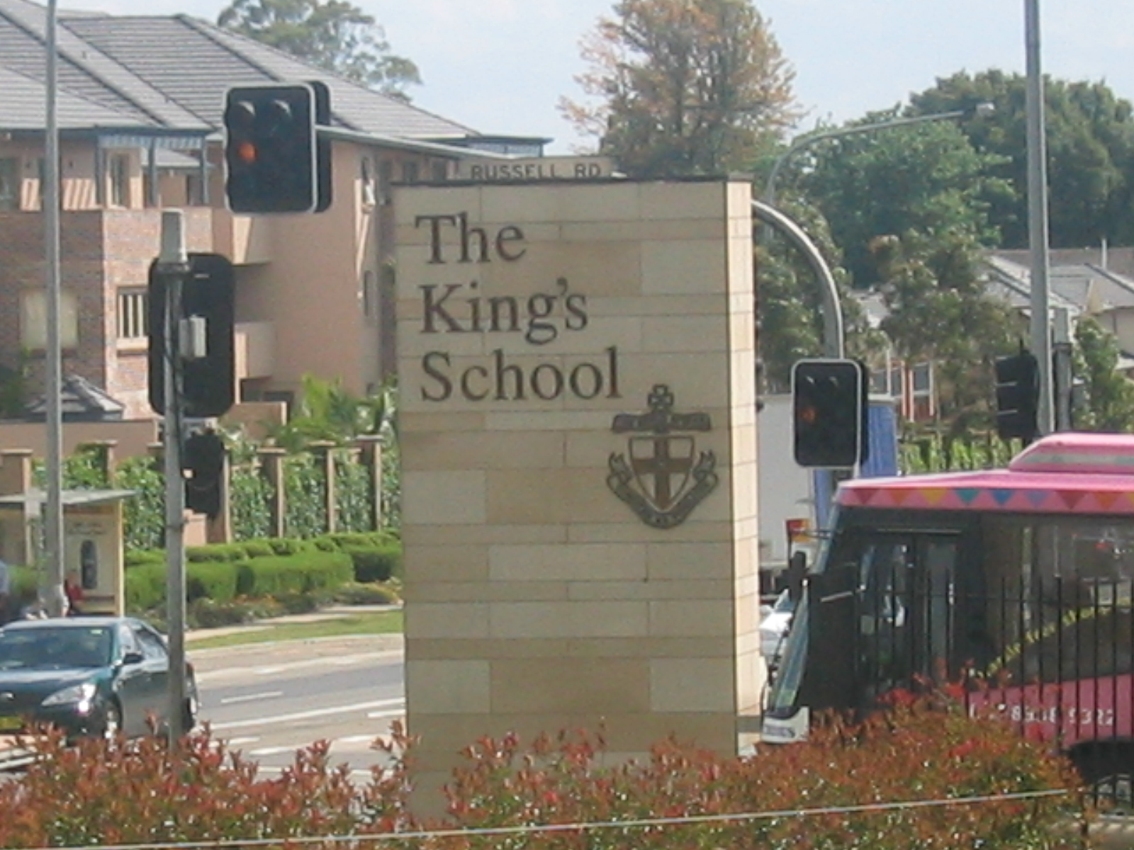 Main Entrance to The King's School. Photo taken in 2004.